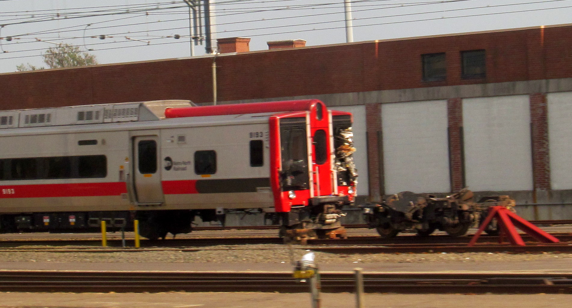 M8 car #9193 in MNRR's Bridgeport yard in May 2013. This car was damaged in the Fairfield trash crash of May 17, 2013.